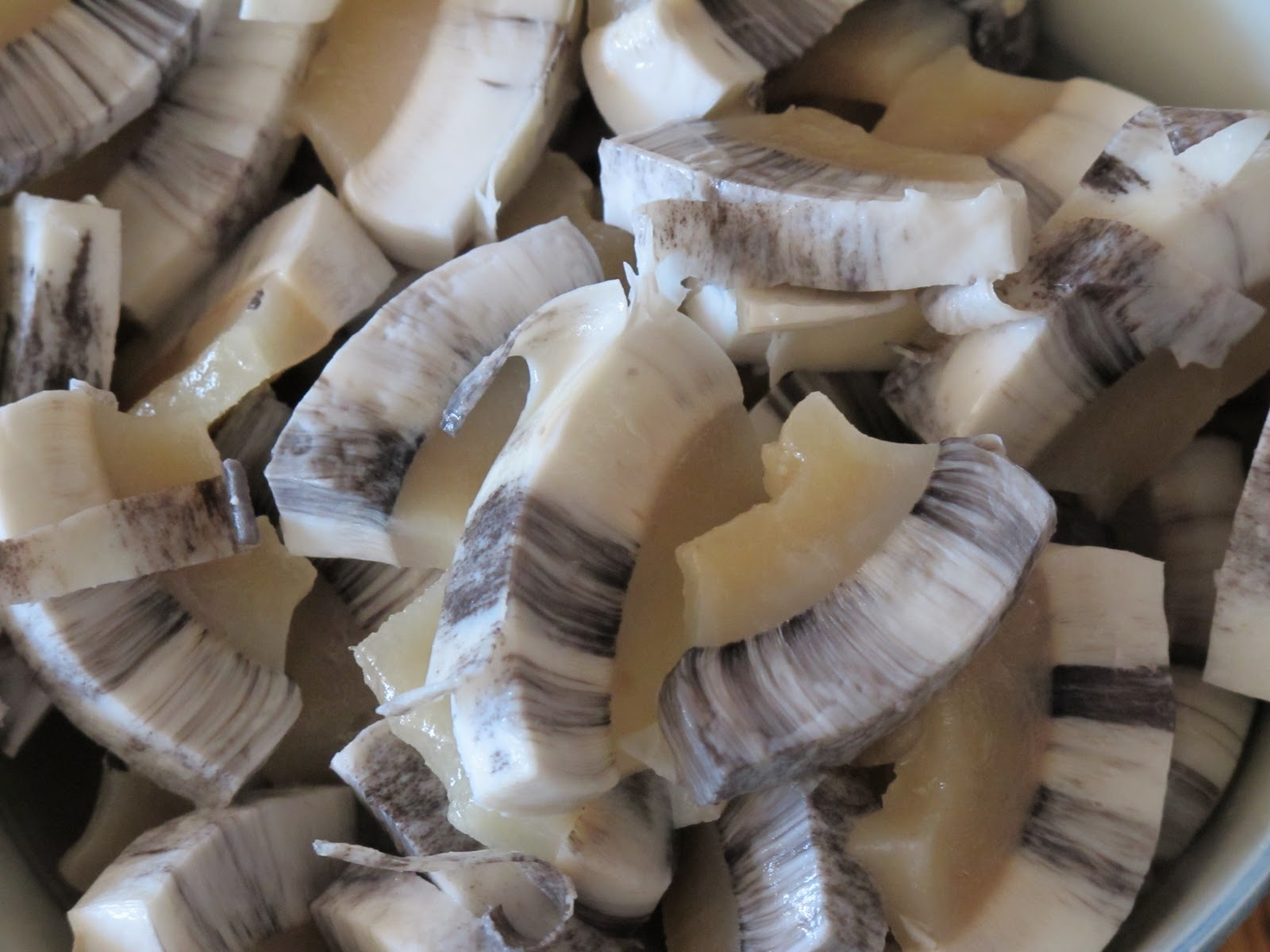 Greenlandic Mattak, sea mammal blubber.